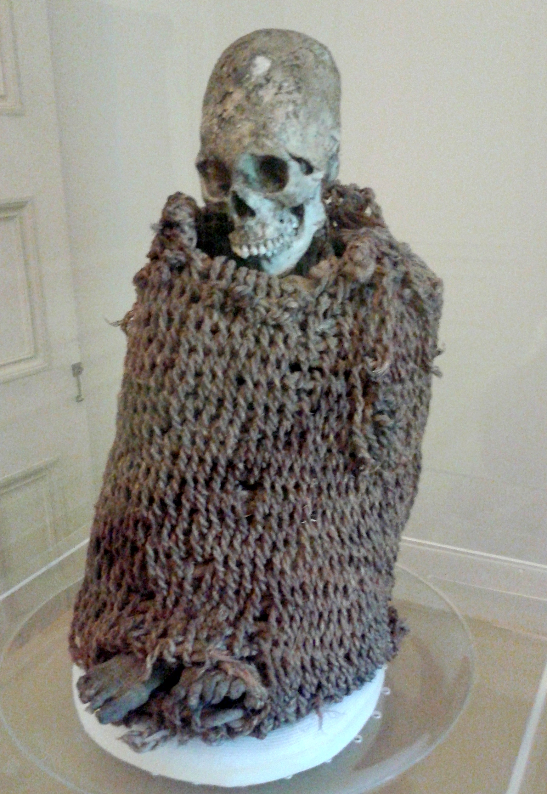 Funerary pack involving an Aymara mummy of a man (aged 30-40 years).